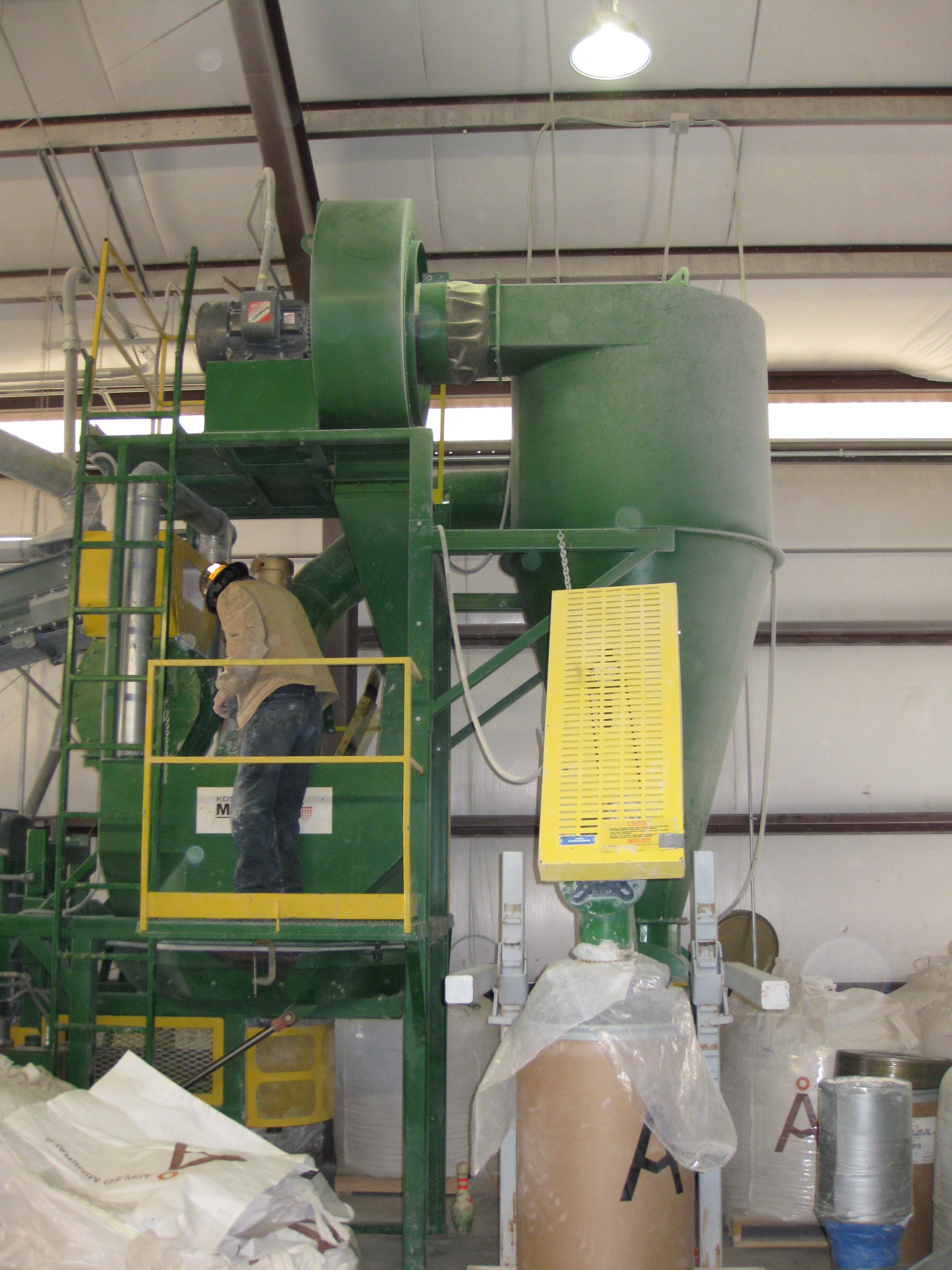 KDS Micronex at Applied Minerals' Dragon Mine property in Utah, 2013